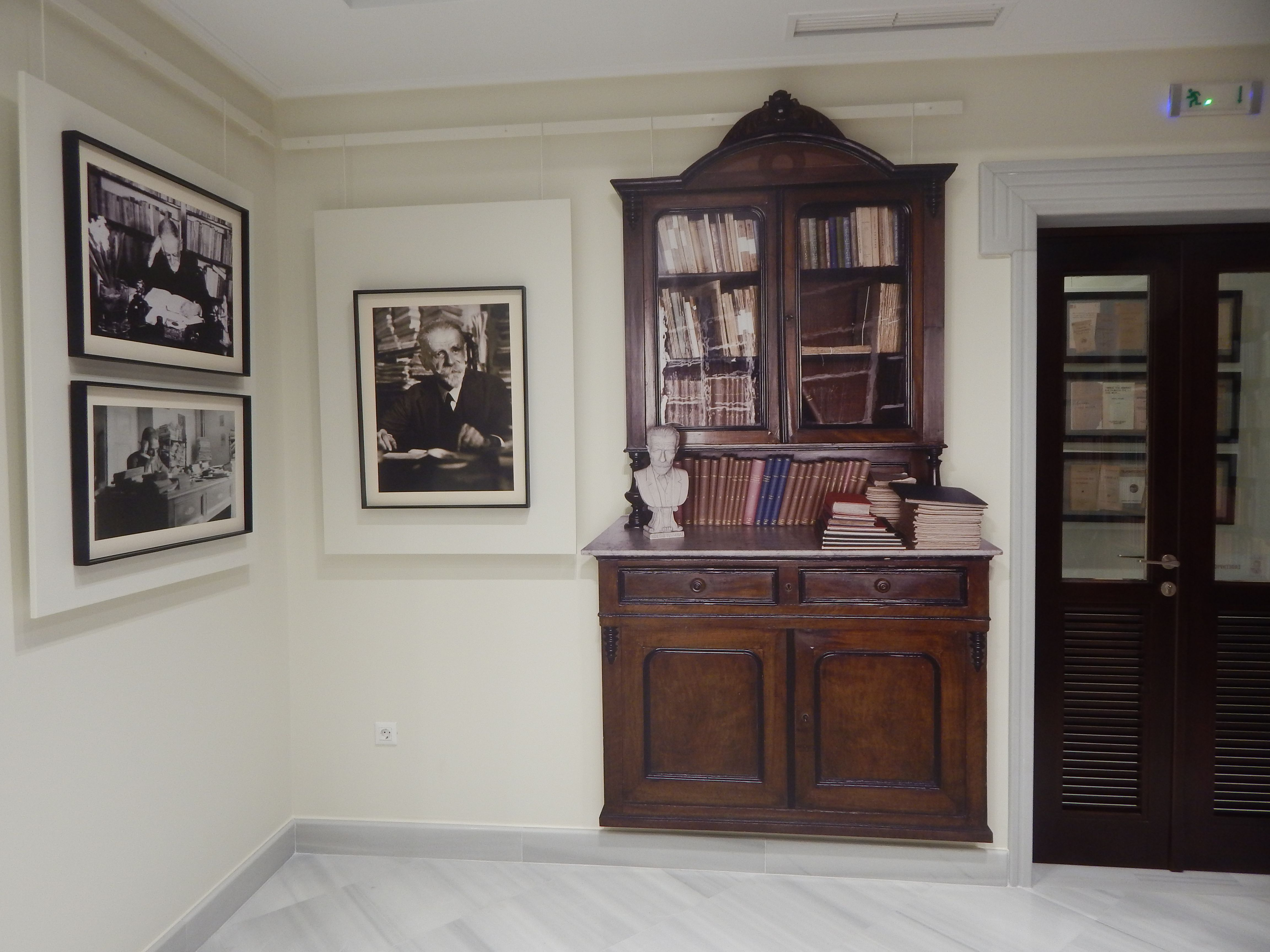 Room from the house where Kostis Palamas was born and spent his childhood